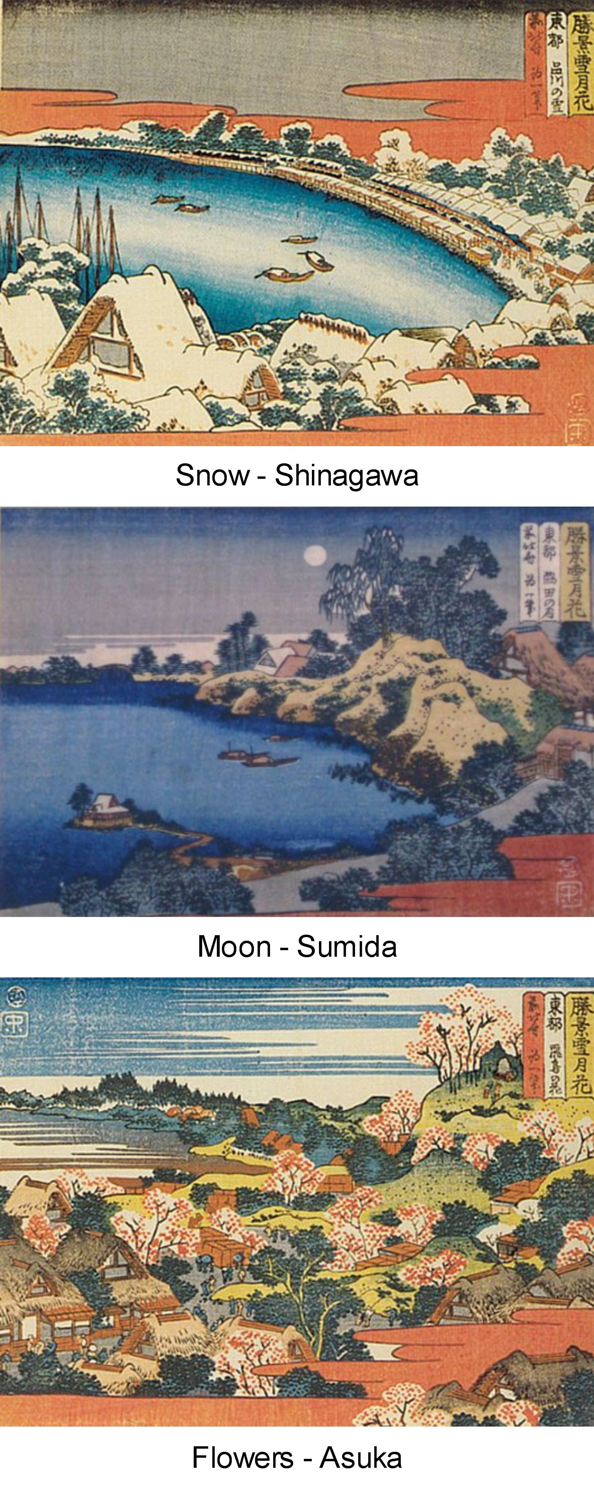 Hokusai SGK 3 prints concerning Edo